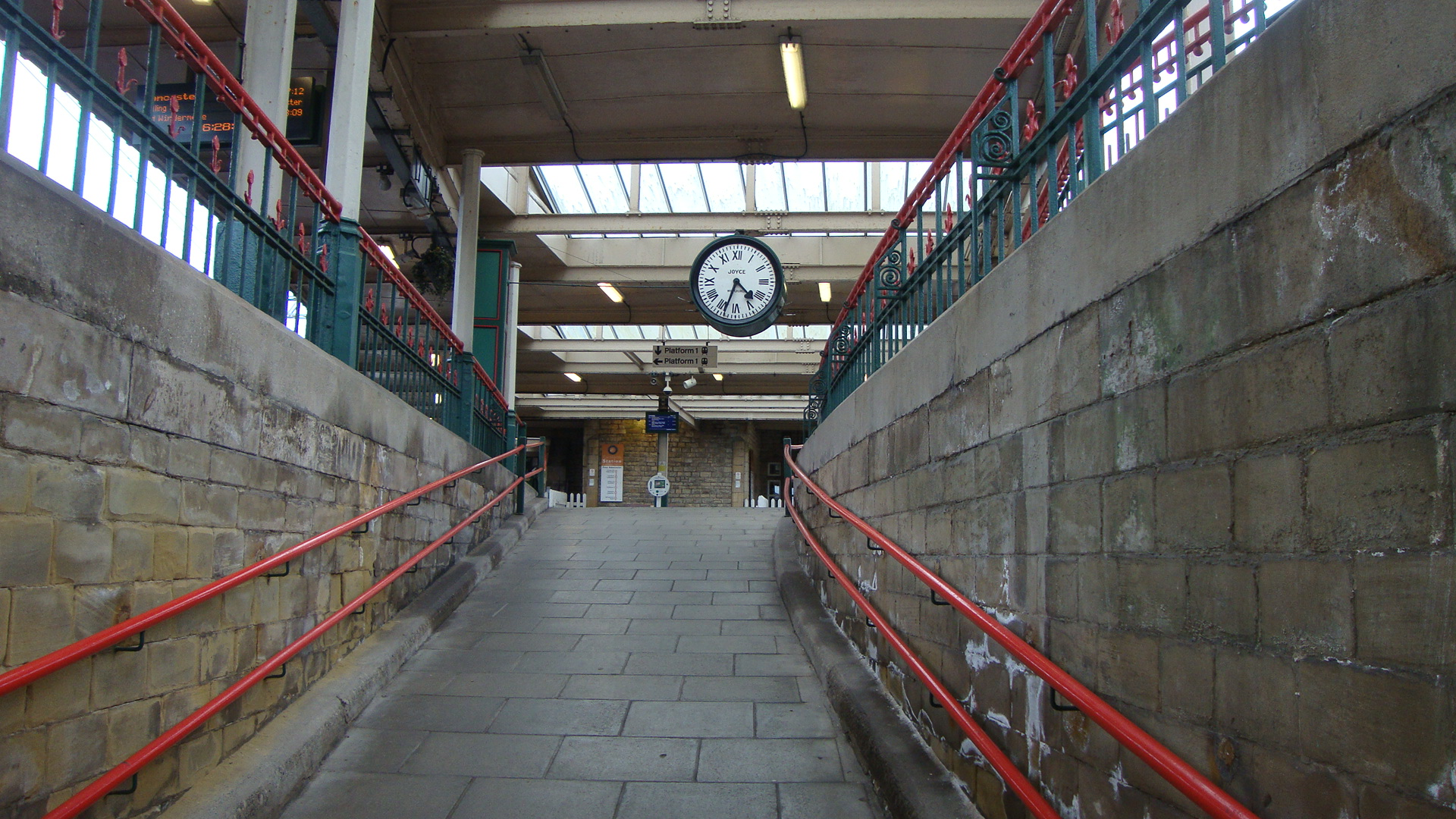 Restored clock at Carnforth (England, UK) Railway Station which was filmed for the film/movie Brief Encounter.